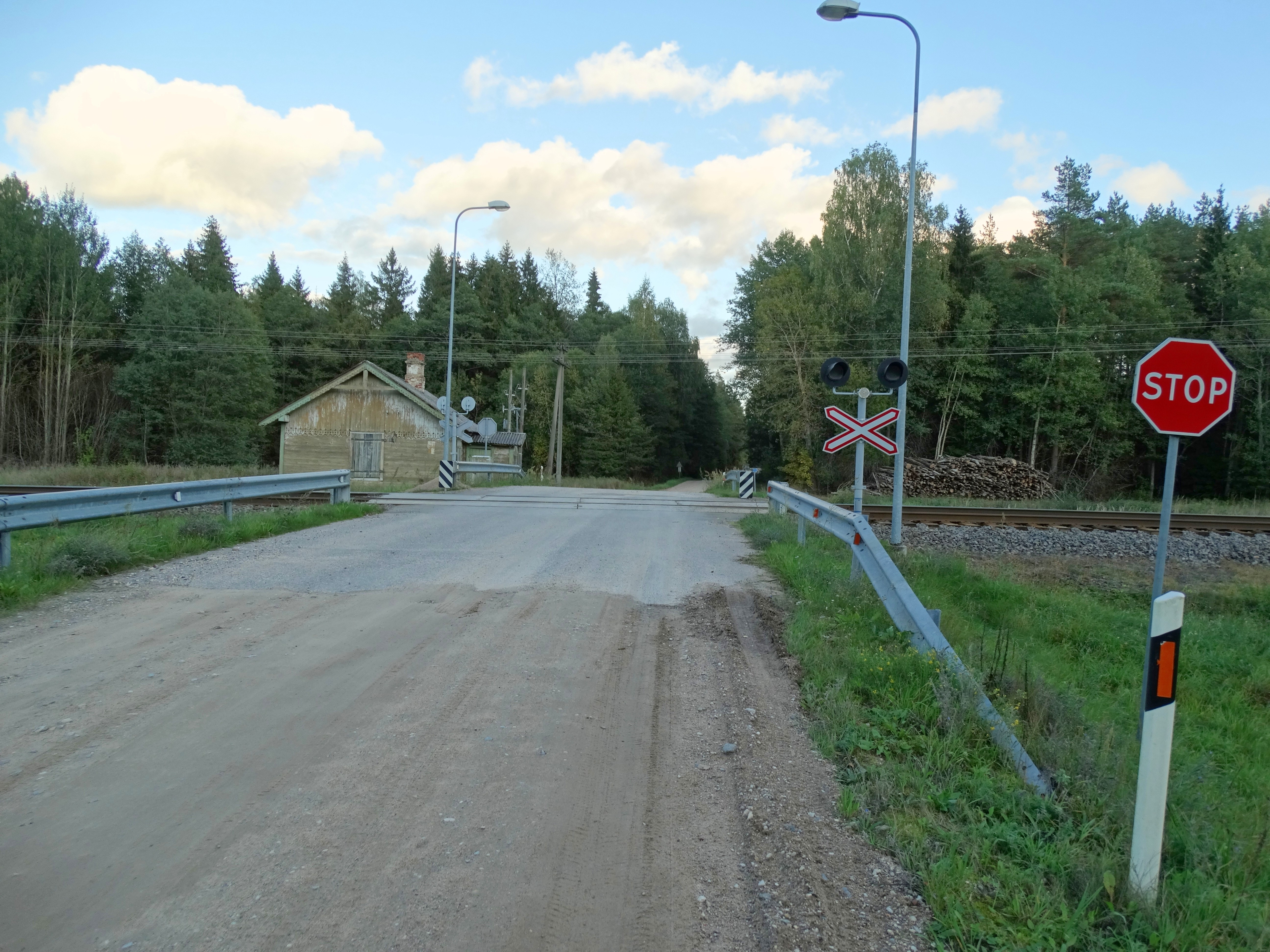 Railway crossing, Vilnius-Turmantas, Ignalina district, Lithuania